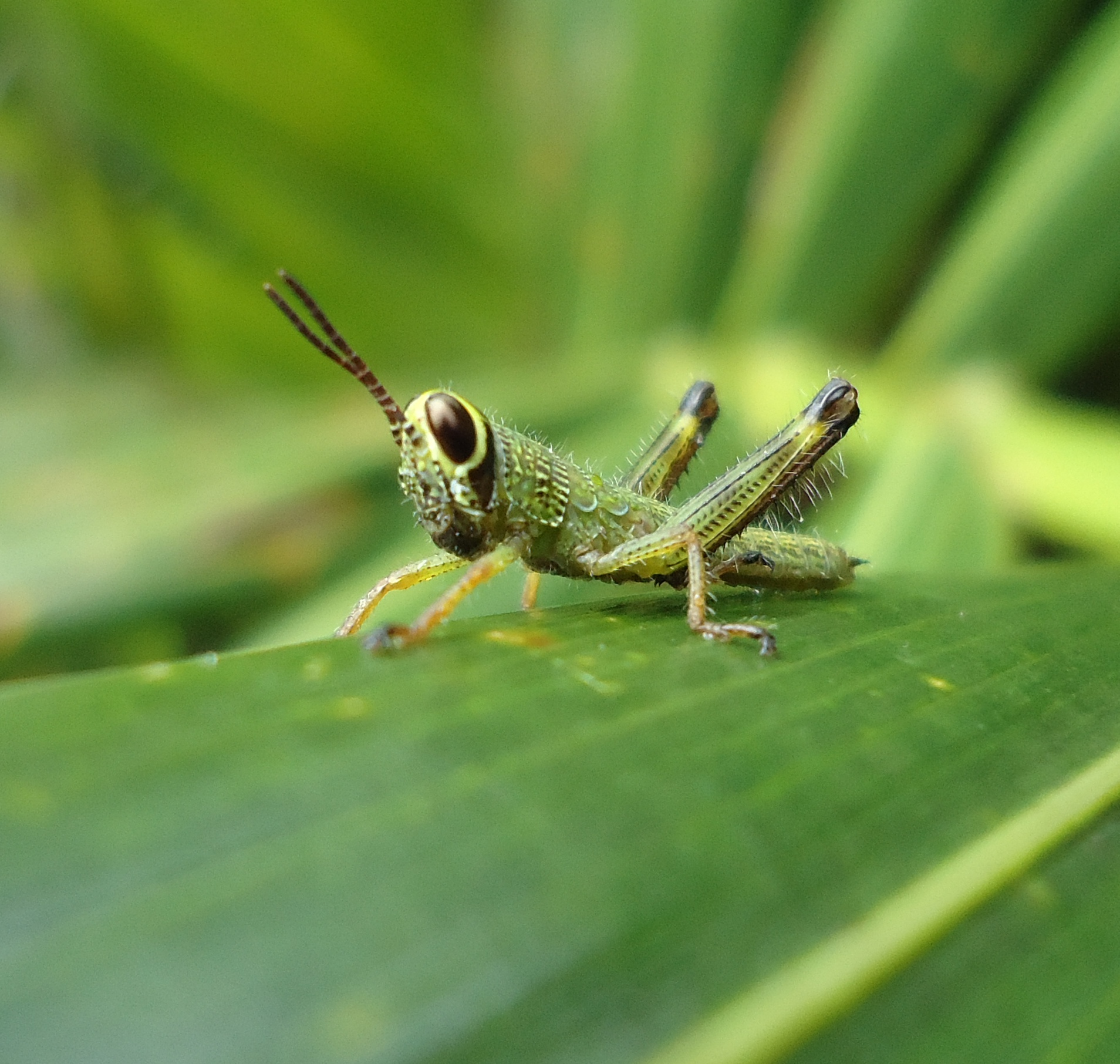 nymph of the small rice grasshopper Pseudoxya diminuta (Walker, 1871) from Mindanao, Philippines